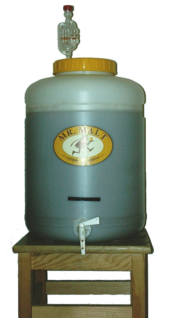 28 liters homebrew fermenter by Mr.Malt